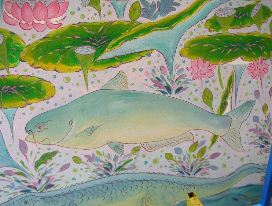 Representation of a Mekong giant catfish at a temple in Chiang Khong